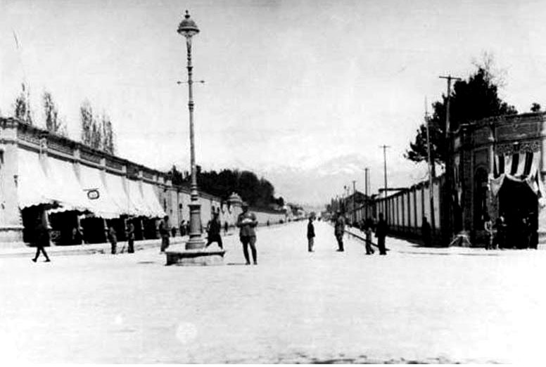 Amiriyeh Square of Tehran during Qajar Era